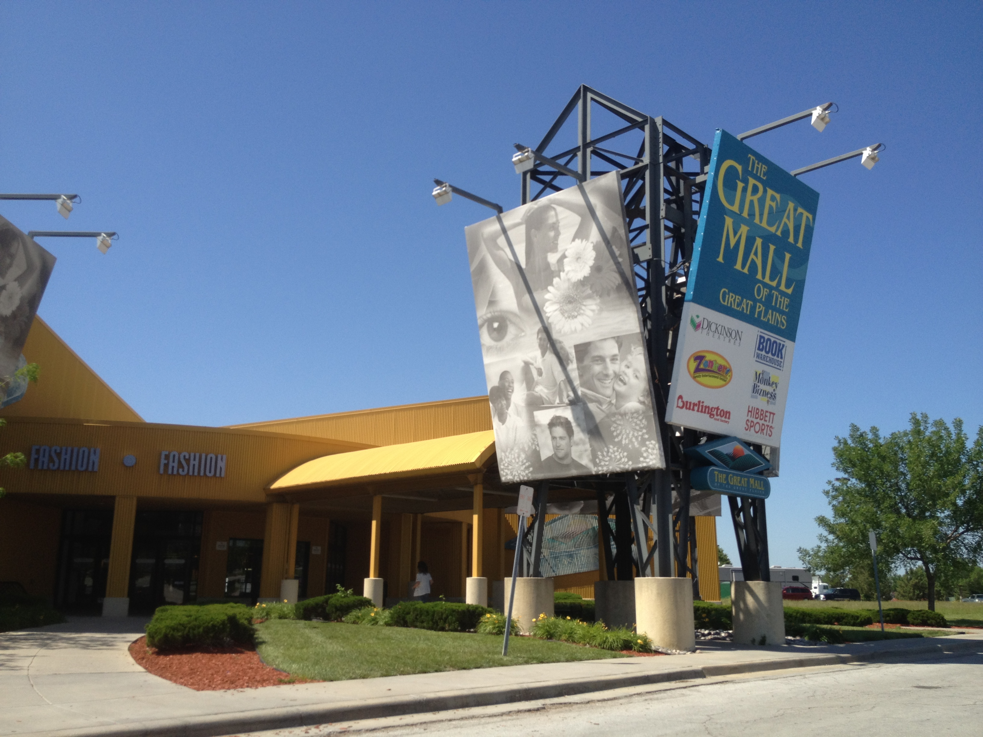 The Great Mall of the Great Plans